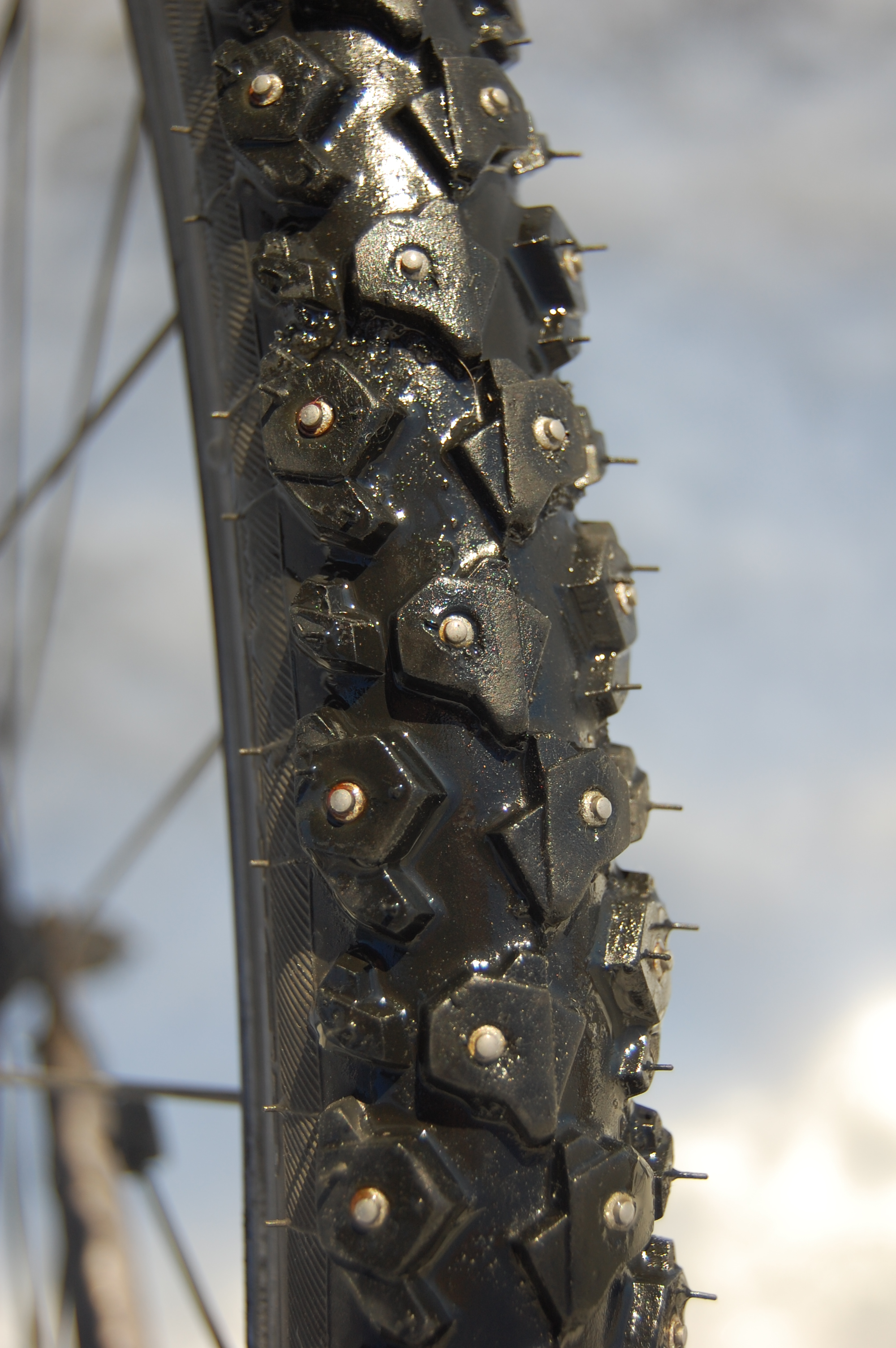 Nokian Hakkapeliitta W240 studded bicycle tyre ridden 700 km